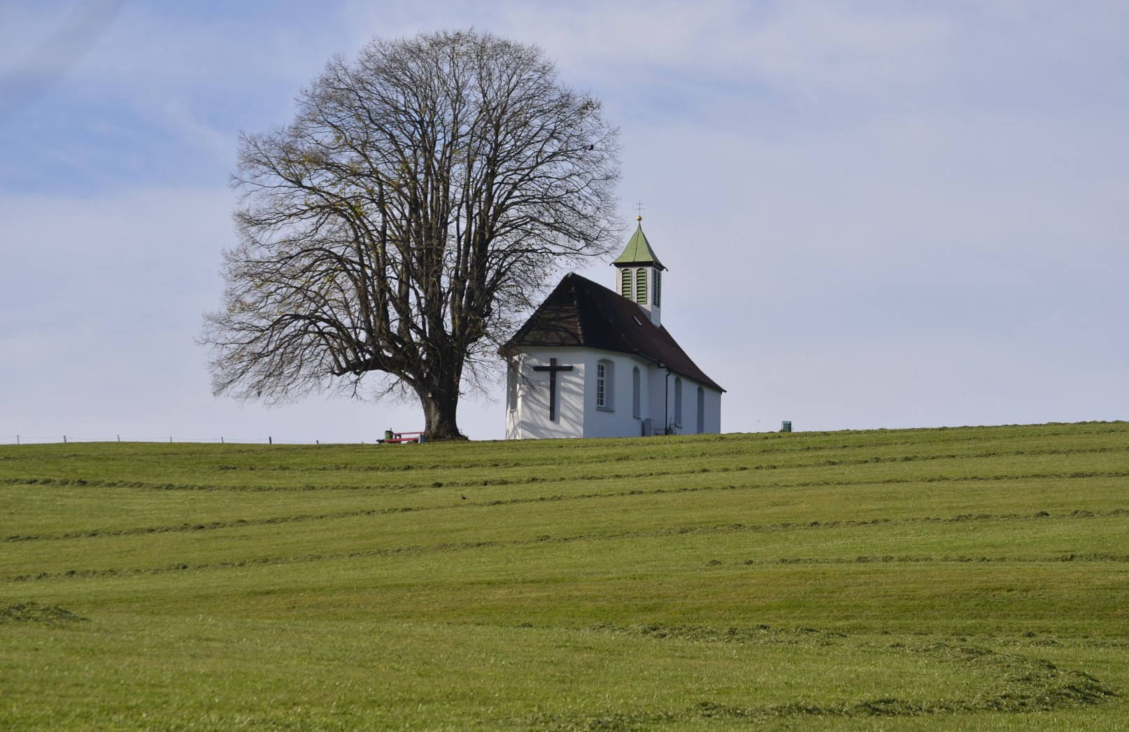 Chapel of the Holy Cross